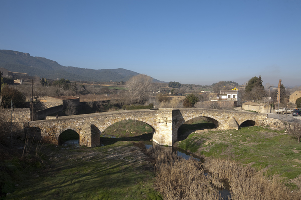 Raval Santa Anna; Montblanc; Catalunya, Tarragona, Spain; ref: PM_011127_E_MONTBLANC; S XII; ; Photographer: Paul M.R. Maeyaert; © Paul M.R. Maeyaert; ; Cultural heritage; Europe/Spain/Montblanc